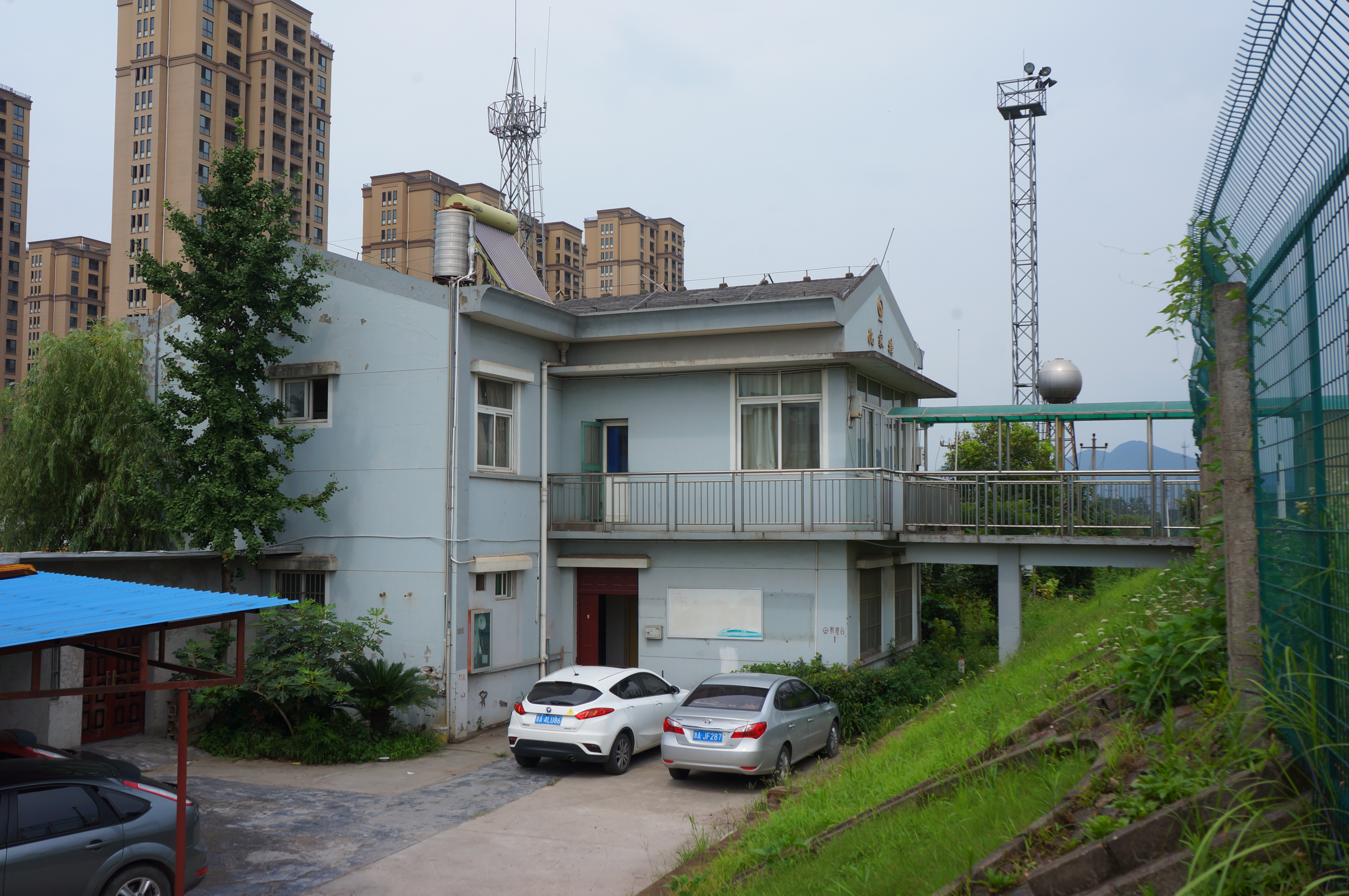 201607 Conductor of Shenjiatang Station